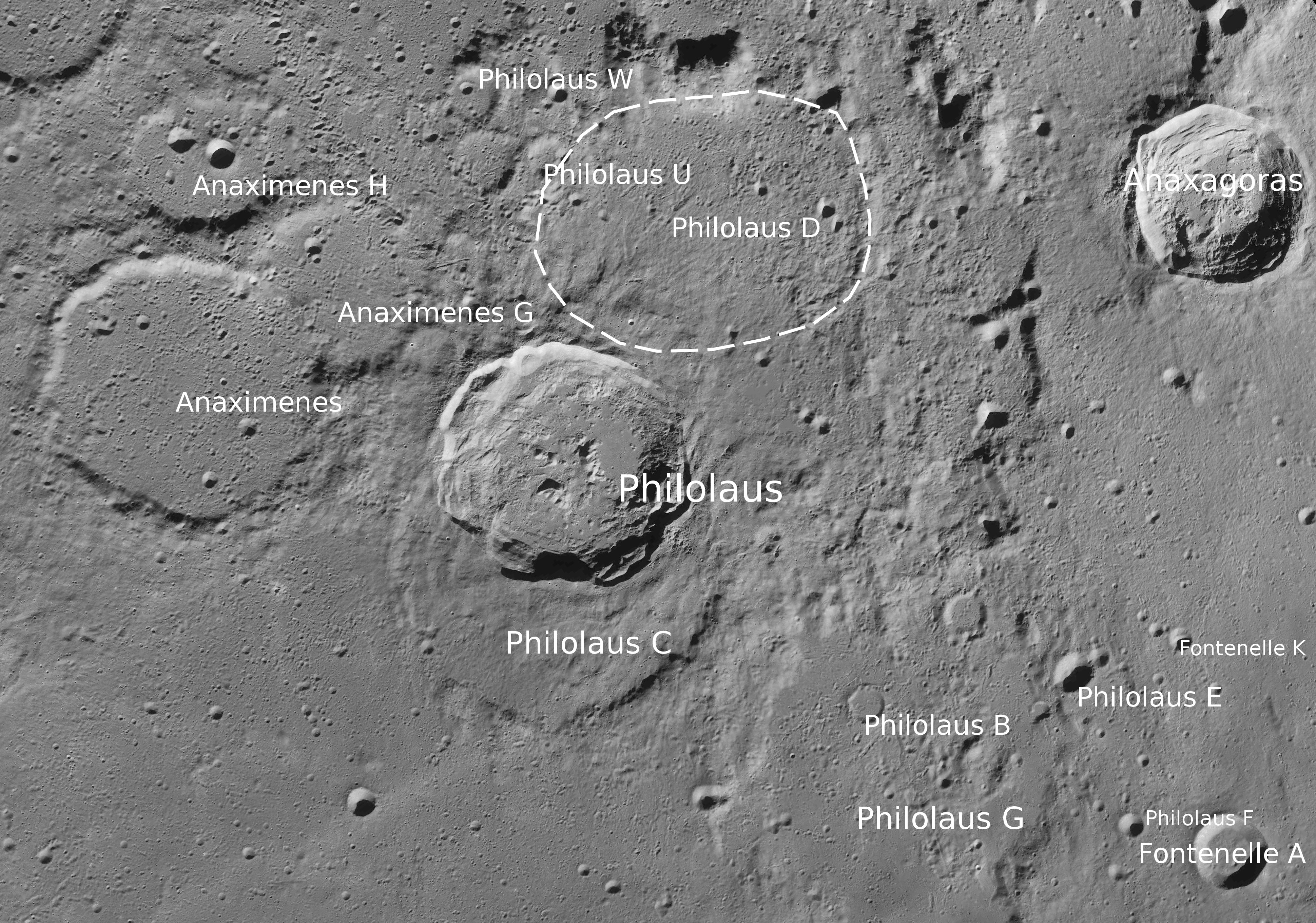 Moon crater Philolaus with satellite features (north at top; detail of LRO - WAC north pole mosaic)